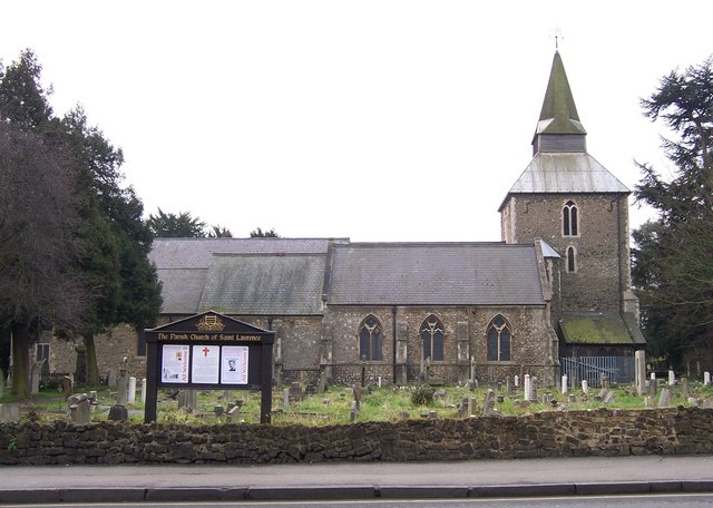 St Laurence's parish church, St Mary's Lane, Upminster, London (formerly Essex), seen from the north